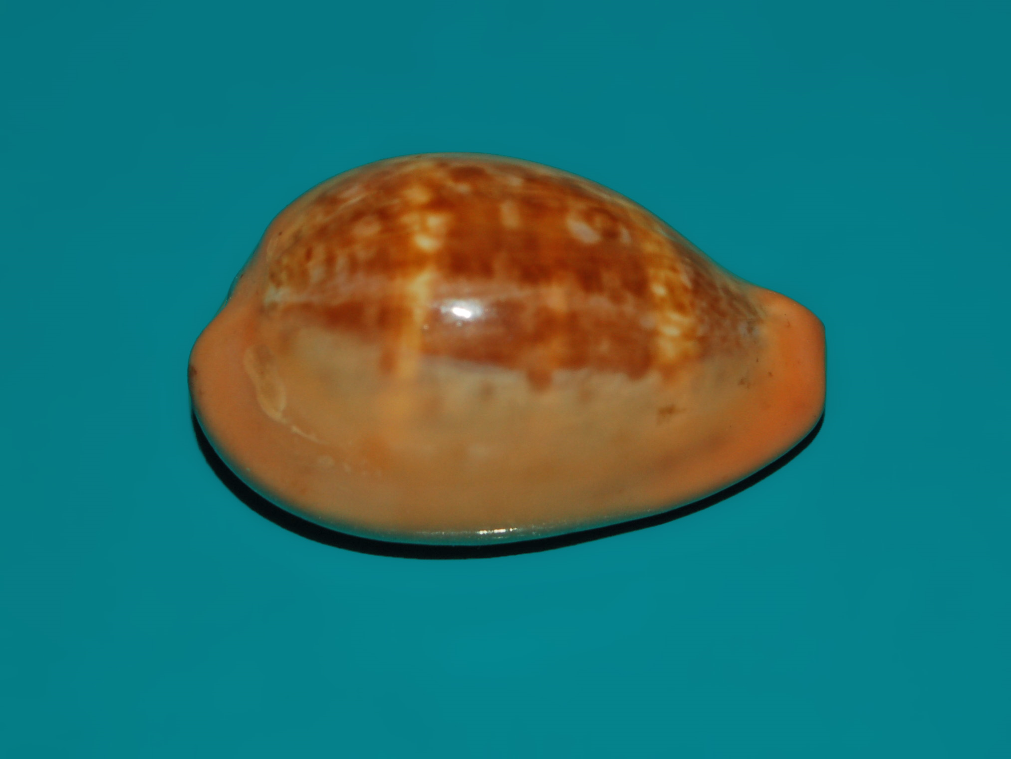 Zonaria pyrul - Sicily